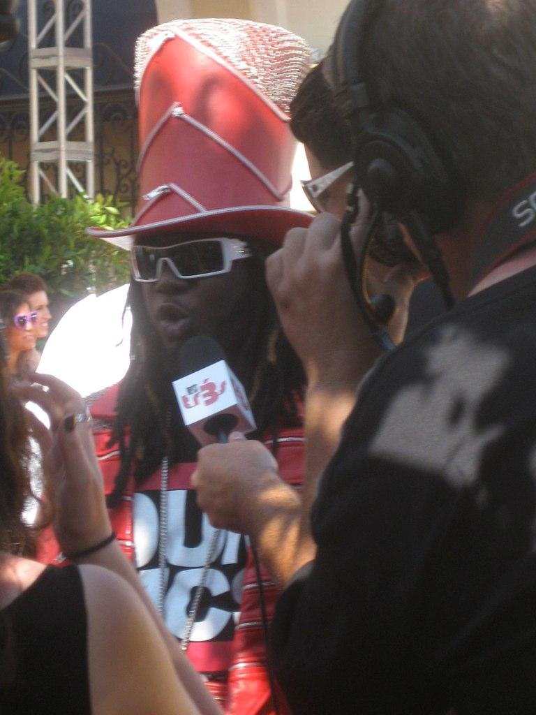 T-Pain at the 2008 MTV Video Music Awards.